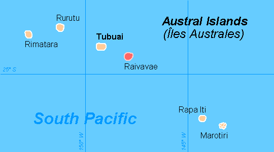 Location of Raivavae within Austral Islands